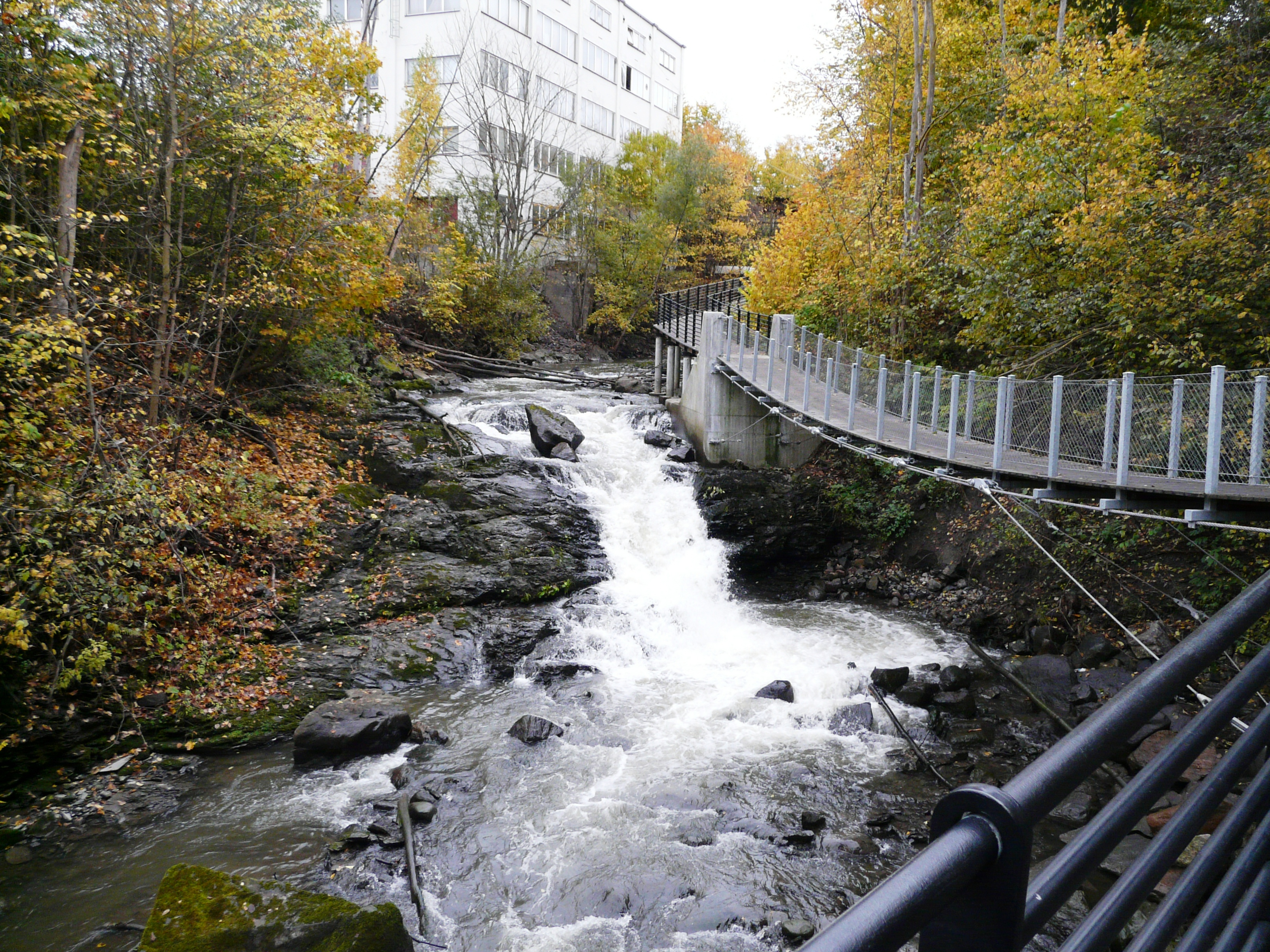 Alna river, waterfalls in Svatdalen. Oslo, late summer 2012.